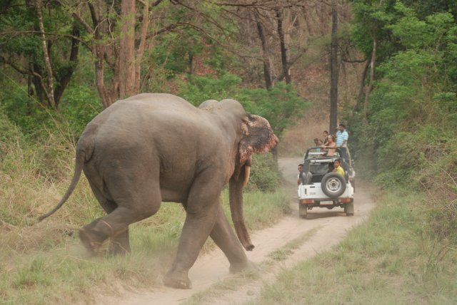 elephant mock charging tourists